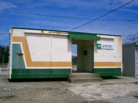 Aizu-Sakamoto Station, Aizubange, Kawanuma District, Fukushima, Japan